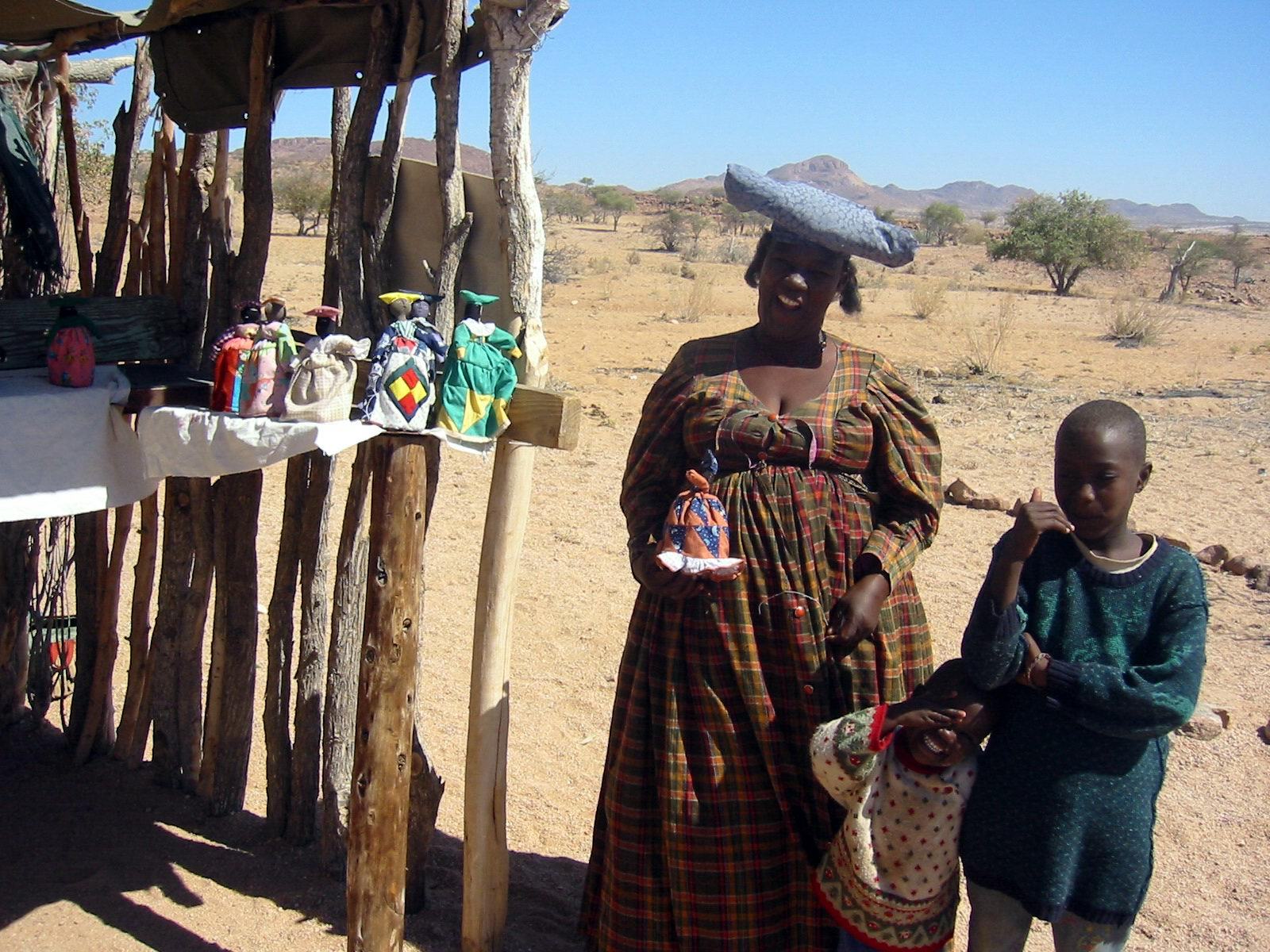 Souvenir dealer in the Ugab River valley, encountered on the way from Khorixas to the Brandberg, NW Namibia